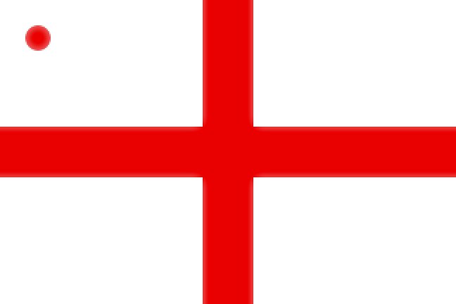 These are my own designs using MS Paint 2015 based upon the descriptions given in the book British flags, their early history, and their development at sea; with an account of the origin of the flag as a national device by Perrin, W. G. (William Gordon), 1874-1931 published in 1922, Chapter IV Flags of Command pp. 73-109. It is the command flag Rear Admiral of the White squadron flown at the top of the masthead in use from 1805 to 1864. In use on board ships in the Kingdom of Great Britain then later the United Kingdom.